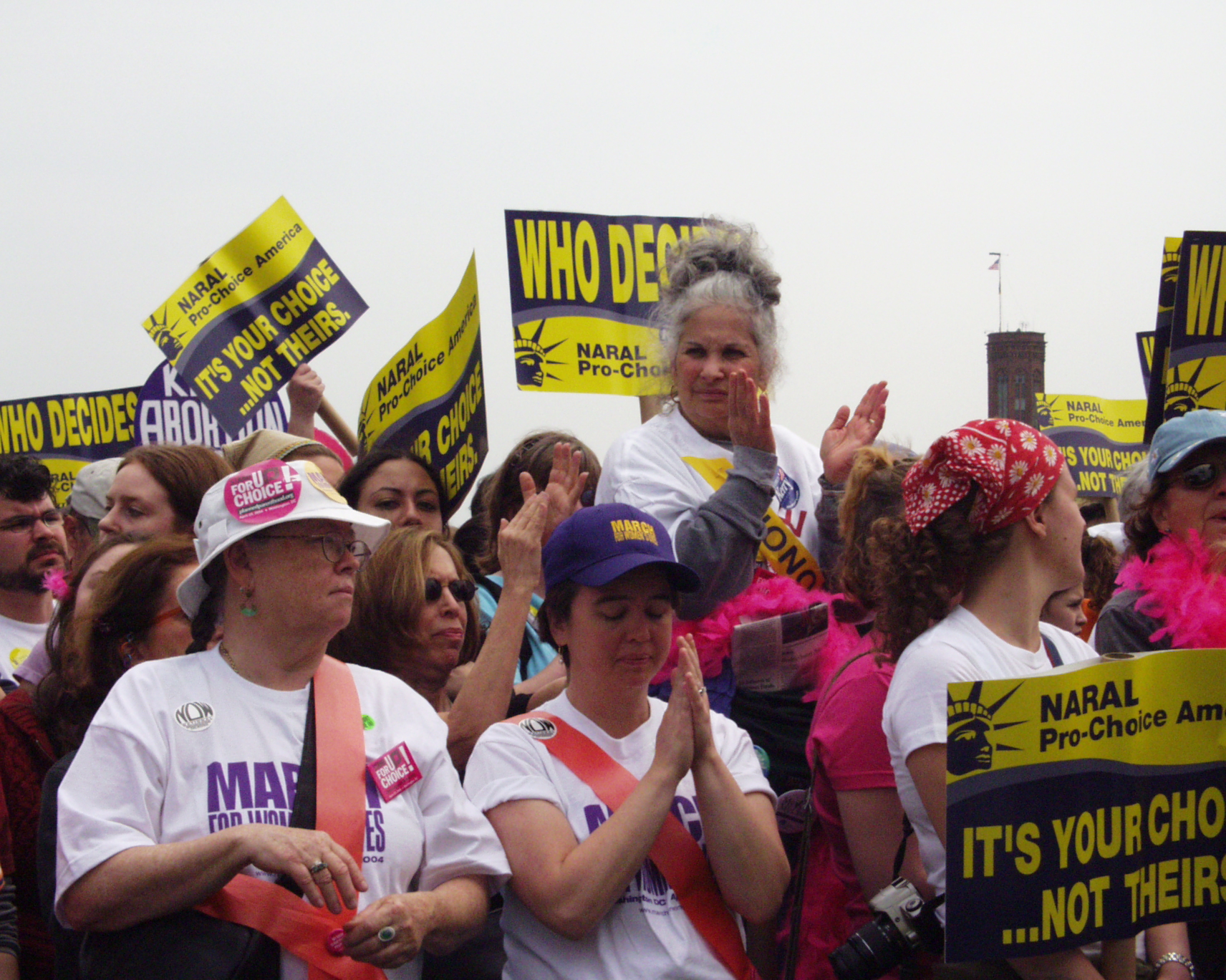 In 2004 the March For Women's Lives took place in Washington DC. The streets were filled with men and women, young and old, uniting to protect a woman's right to choose. Photograph by Patty Mooney